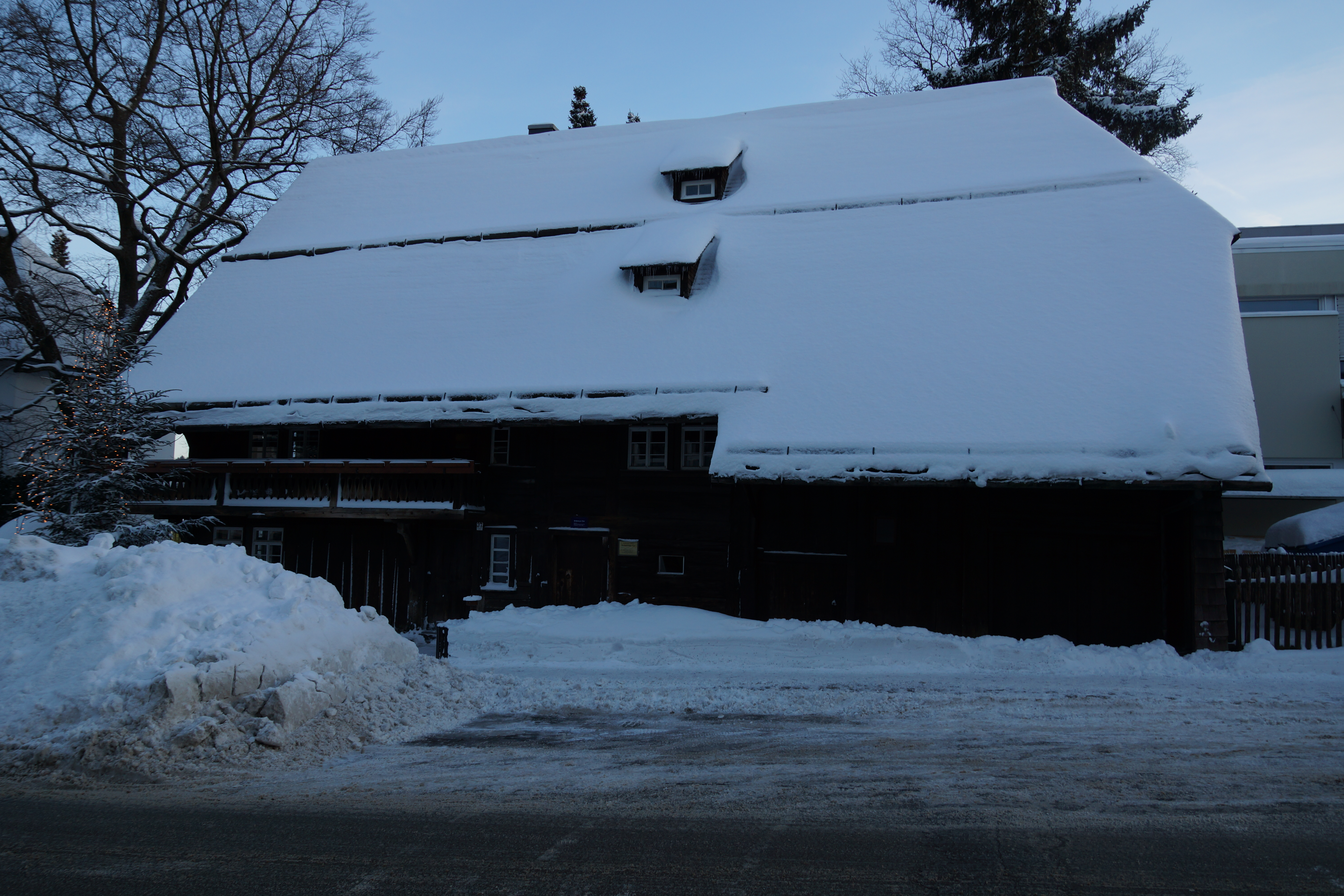 Pictures for Wikimedia / Wikipedia DE:Heimatmuseum Schwarzes Tor St. Georgen (Black Forest) with snow